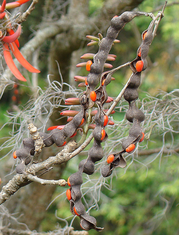 Photo from near Trinidad, Nicaragua. Found from here to Colombia. In context at